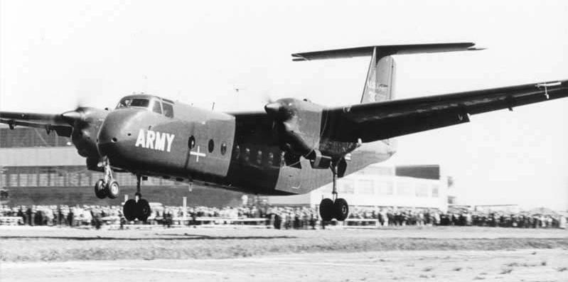 The first prototype CV-7 (AC-2/C-8) "Buffalo" (s/n 63-13686, c/n 1) lifts off from the de Havilland Canada factory on a test flight on behalf of the United States Army.